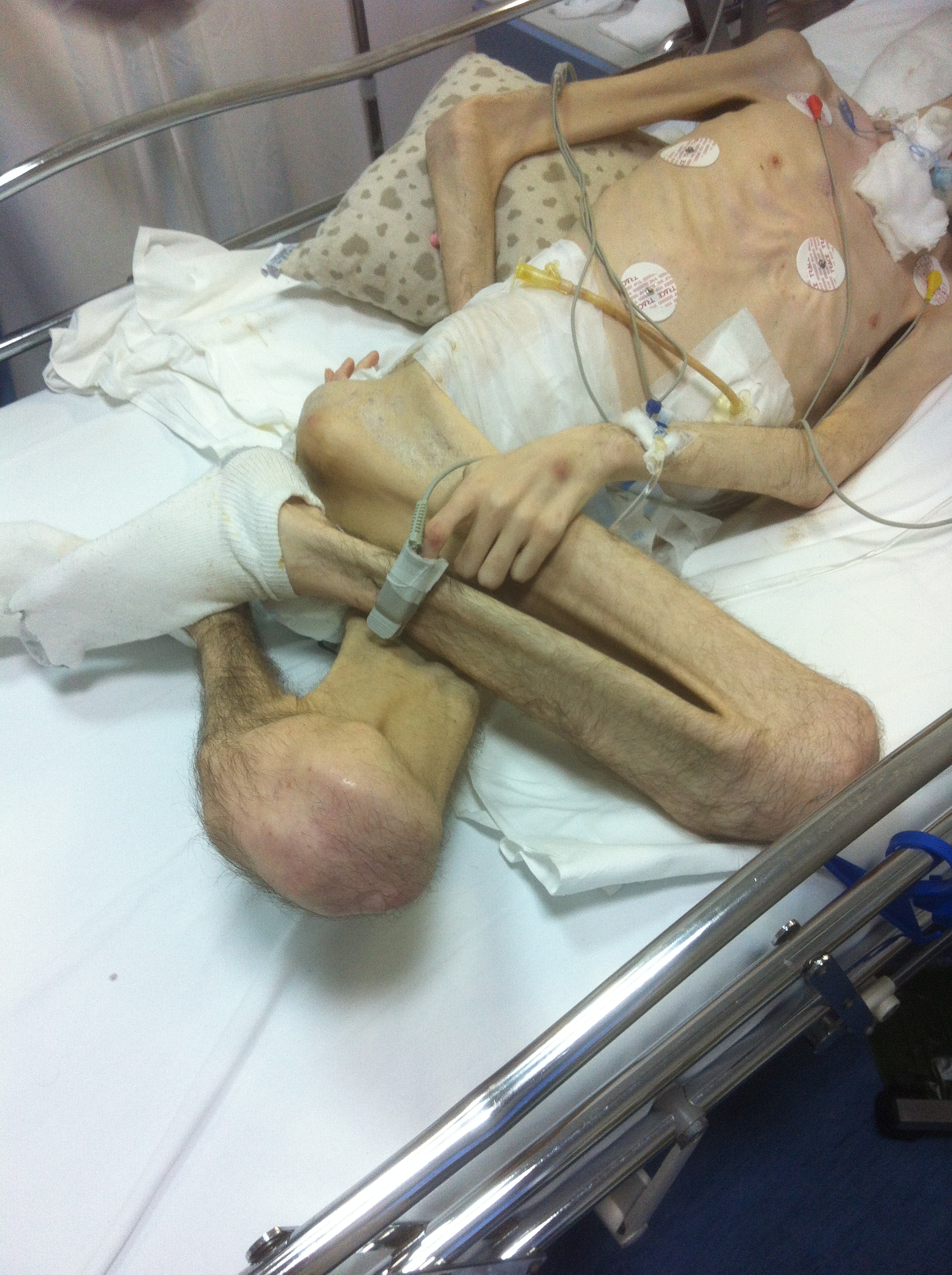 Muscle contractures in terminal neurological condition